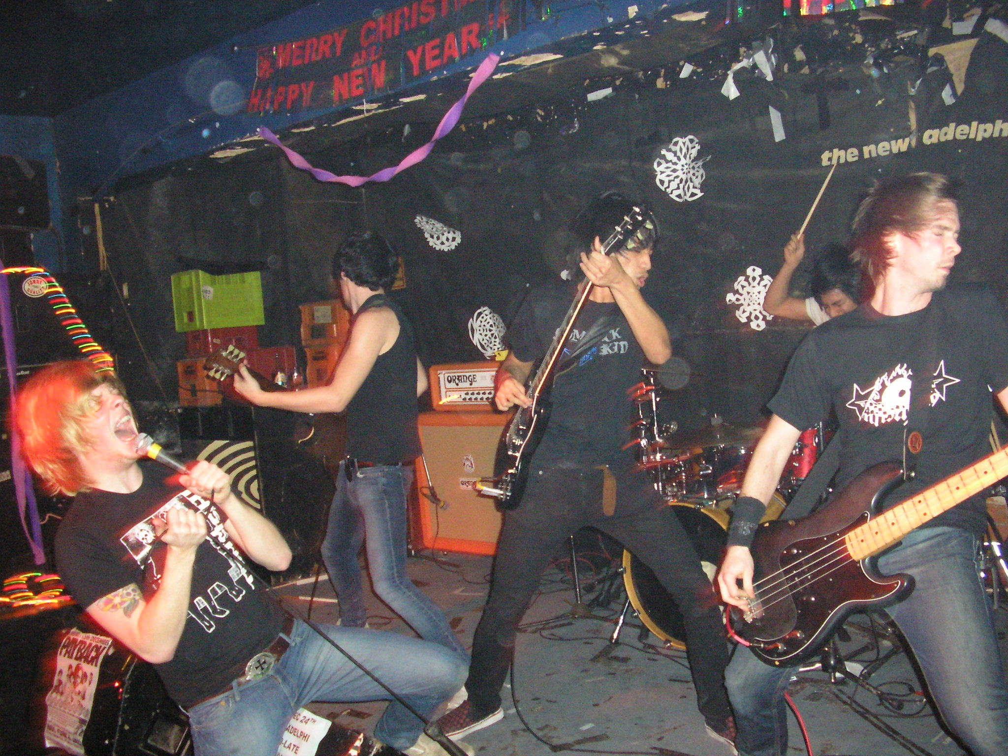 The Ghost of a Thousand at the Hull Adelphi on 12 December 2006. Photo by Tom Middleton.